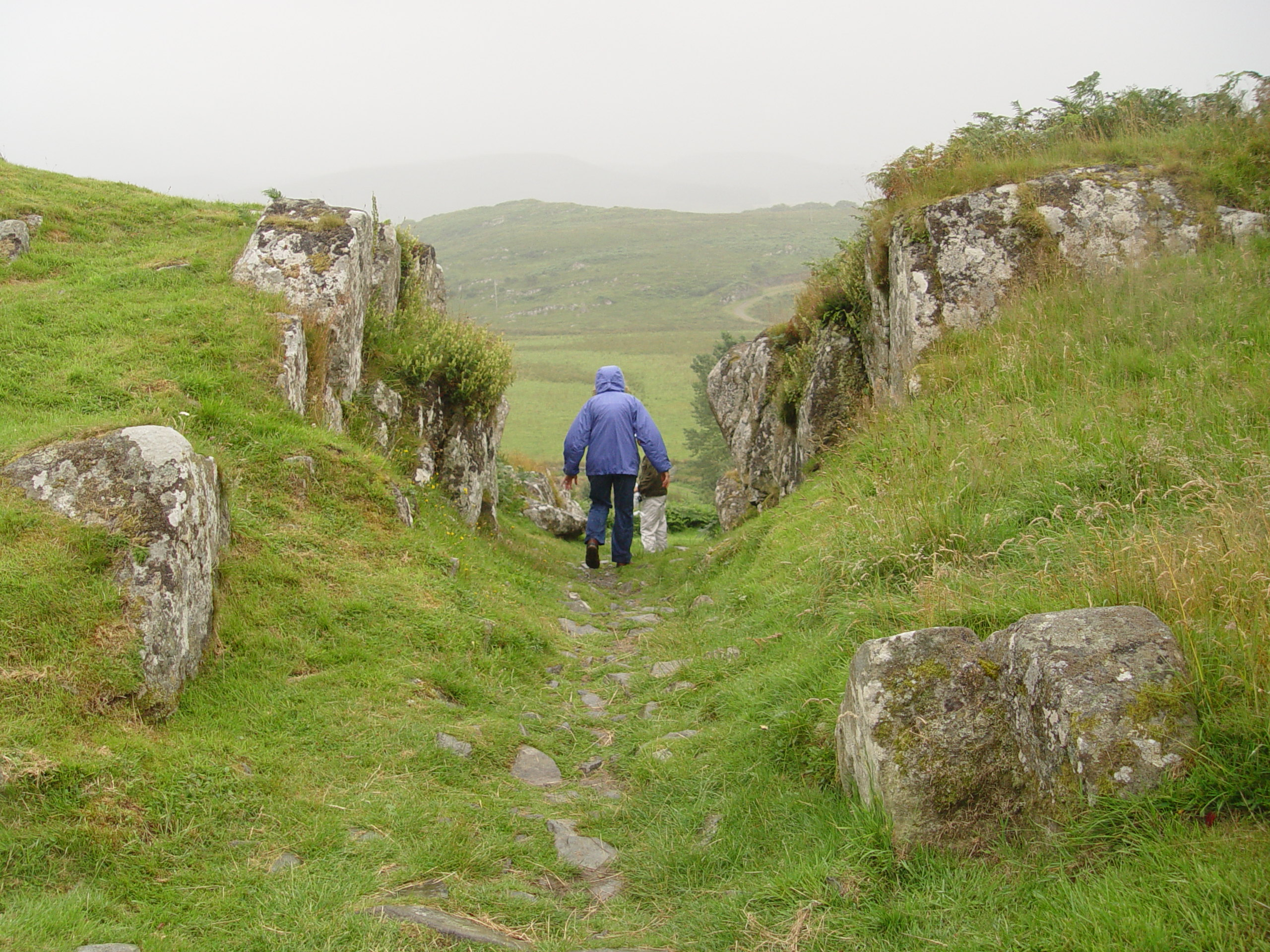 Dunadd Hillfort, Kilmartin Region, Argyle, Scotland Pathway carved out of the rock near the top of Dunadd Fort.